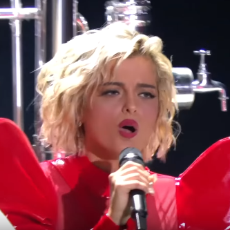 Bebe Rexha performing at Bizkaia Arena, Spain